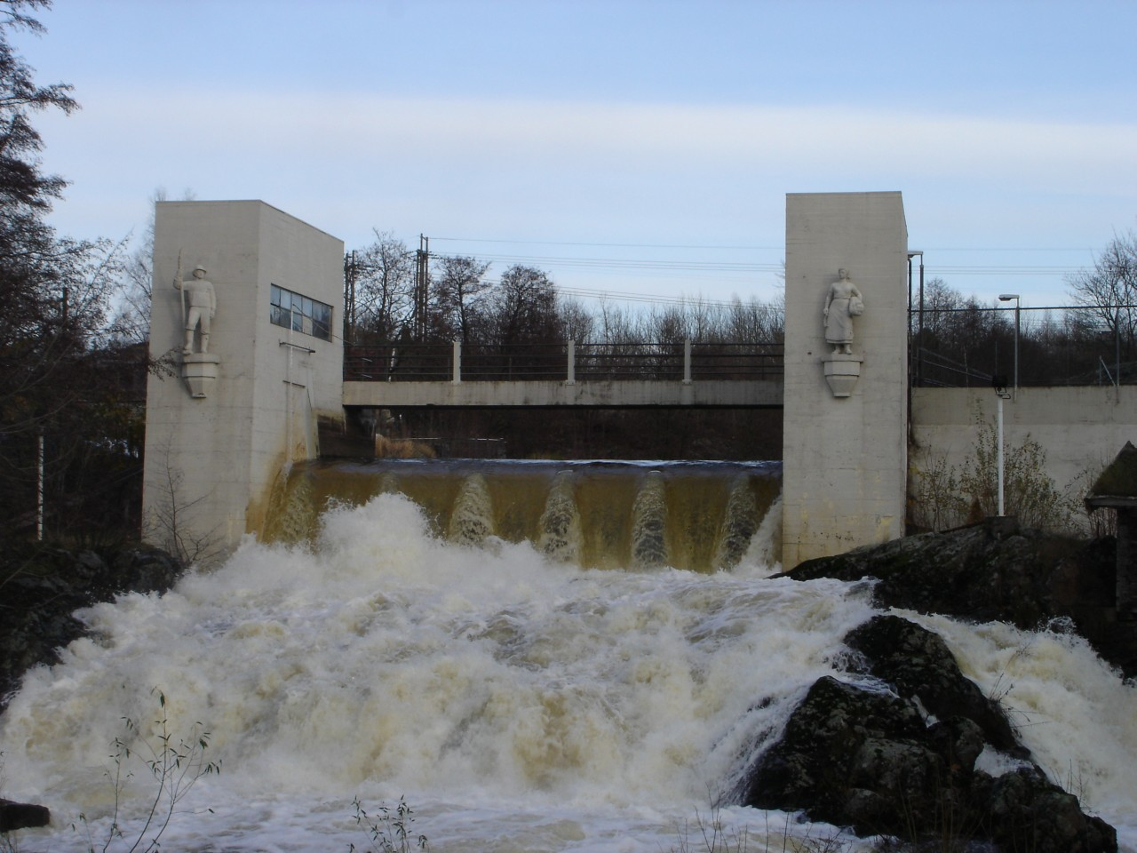 Waterfall in Moss, Norway. A rare sight with the waterfalls as the water is usually used for power production.